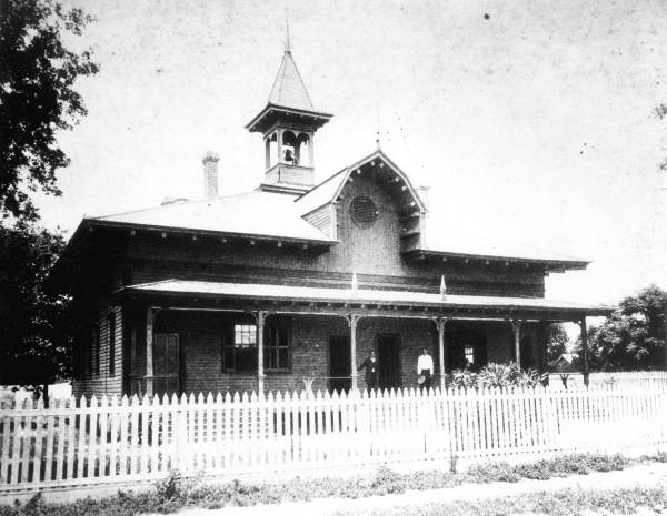 The Union Academy was a school in Gainesville, Florida built with support from the Freedmen's Bureau in 1867 to provide education for black students. It was absorbed by the local school board in 1898 and remained in operation until 1923